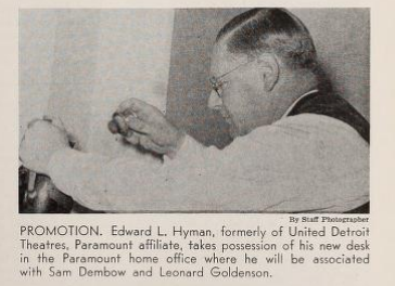 Screenshot from: “This Week the Camera Reports: Promotion,” Motion Picture Herald, 11 May 1941, p. 11.